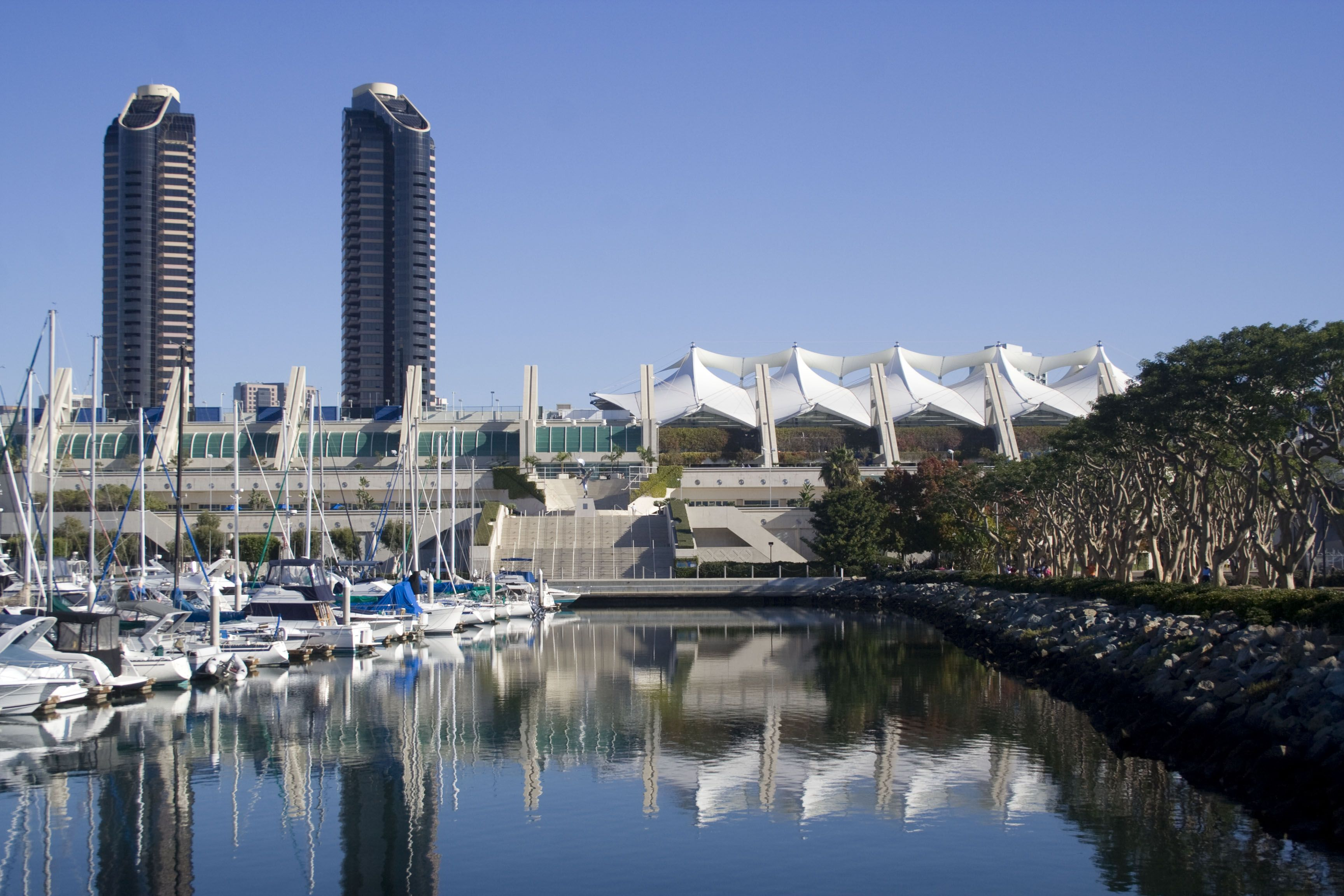 San Diego Convention Center, Marina and Harbor Club Towers, San Diego (CA)